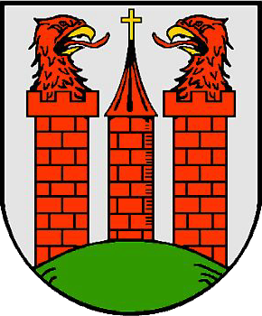 Coat of Arms of Wesenberg